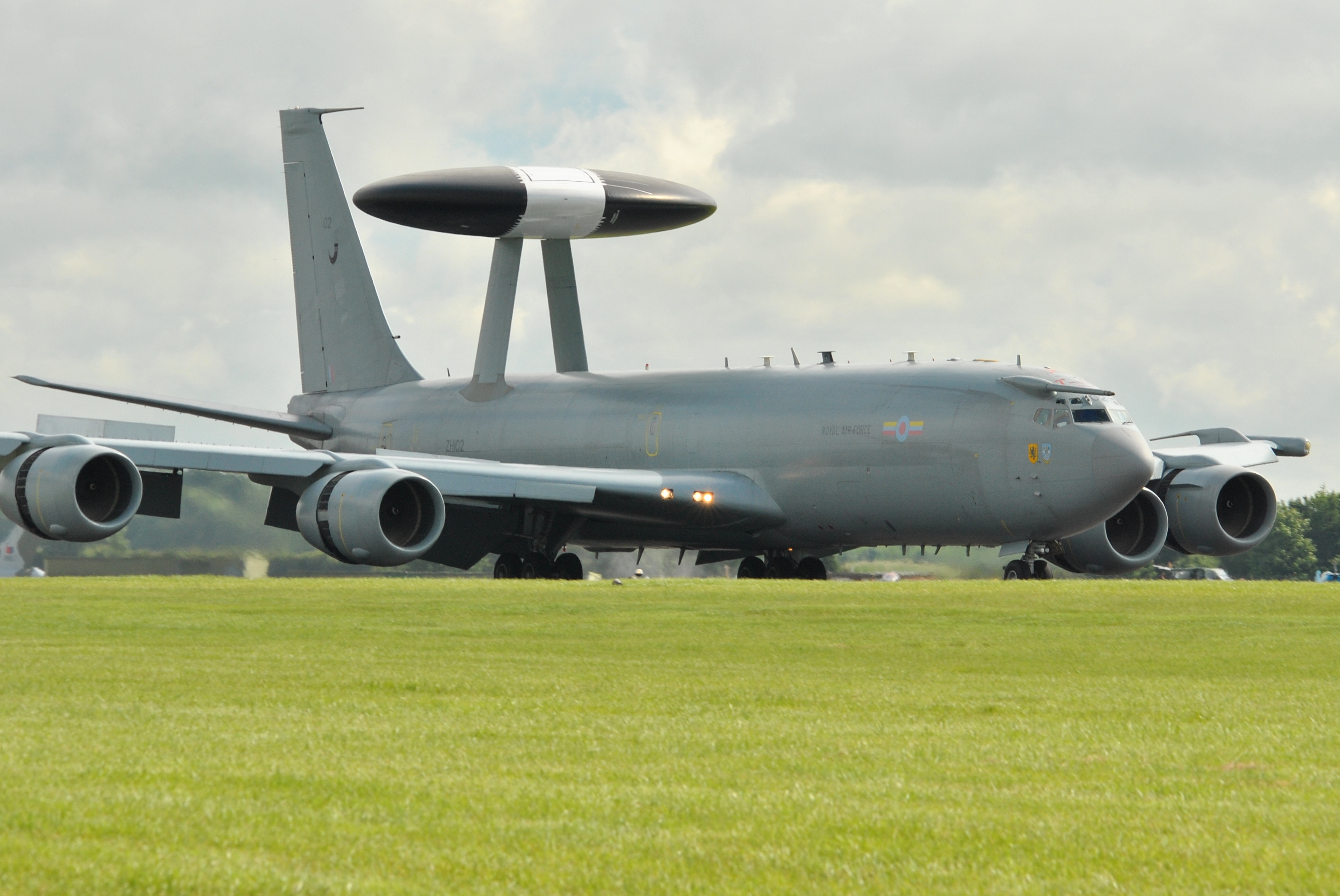 RAF E3D Sentry